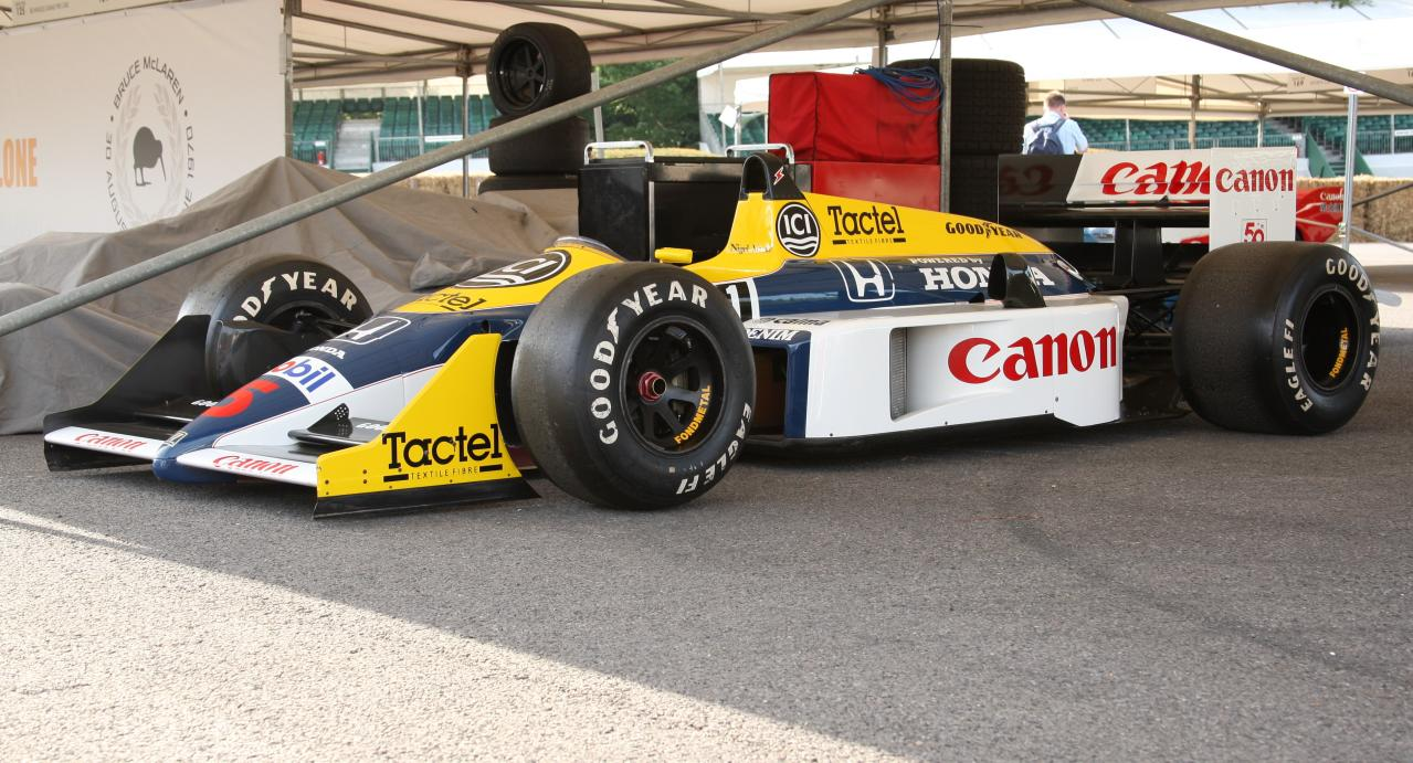 Williams FW11B Honda at goodwood festival of speed 2010